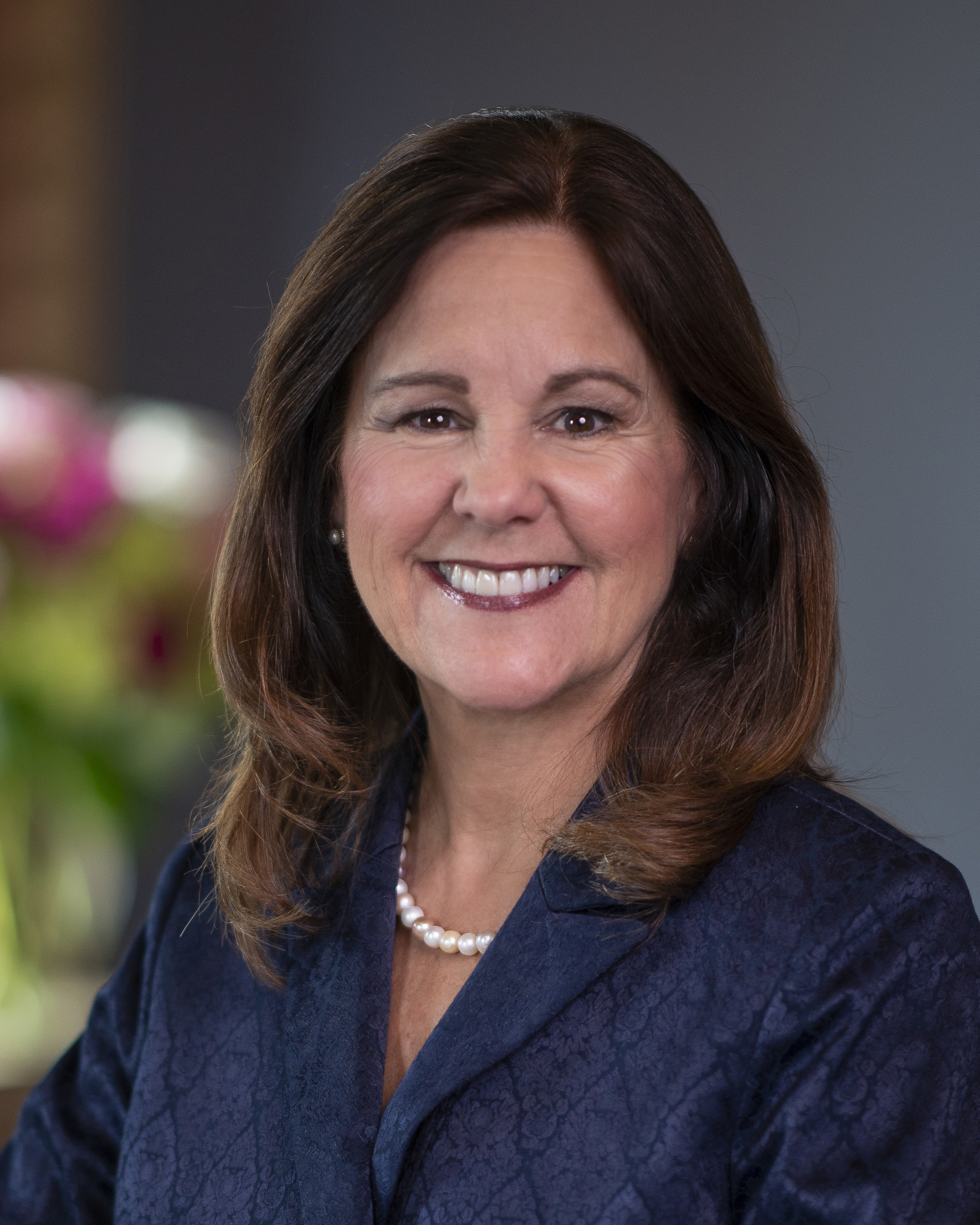 Second Lady Mrs. Karen Pence Official Portrait session Wednesday, March 20, 2019.